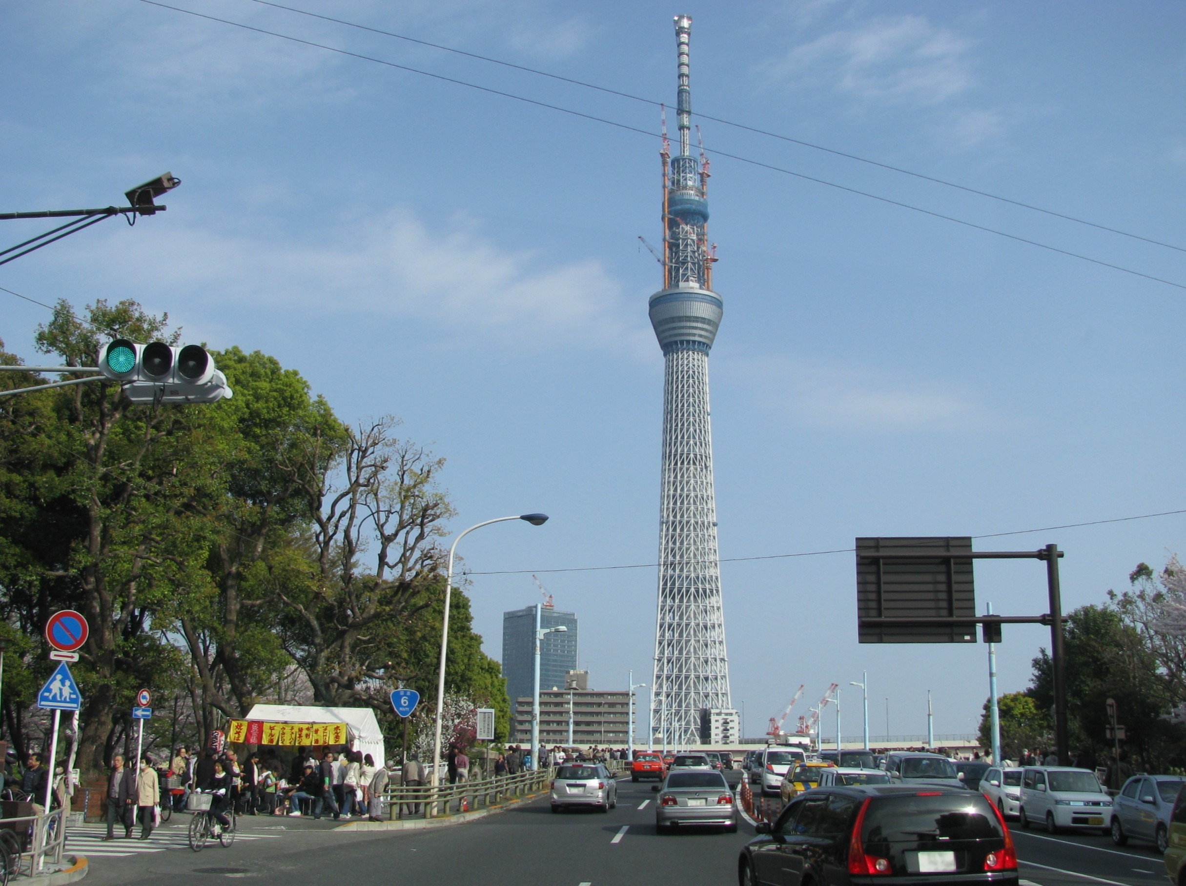 The Japan National Route 6. This located is Asakusa in Taitō, Tokyo, Japan.